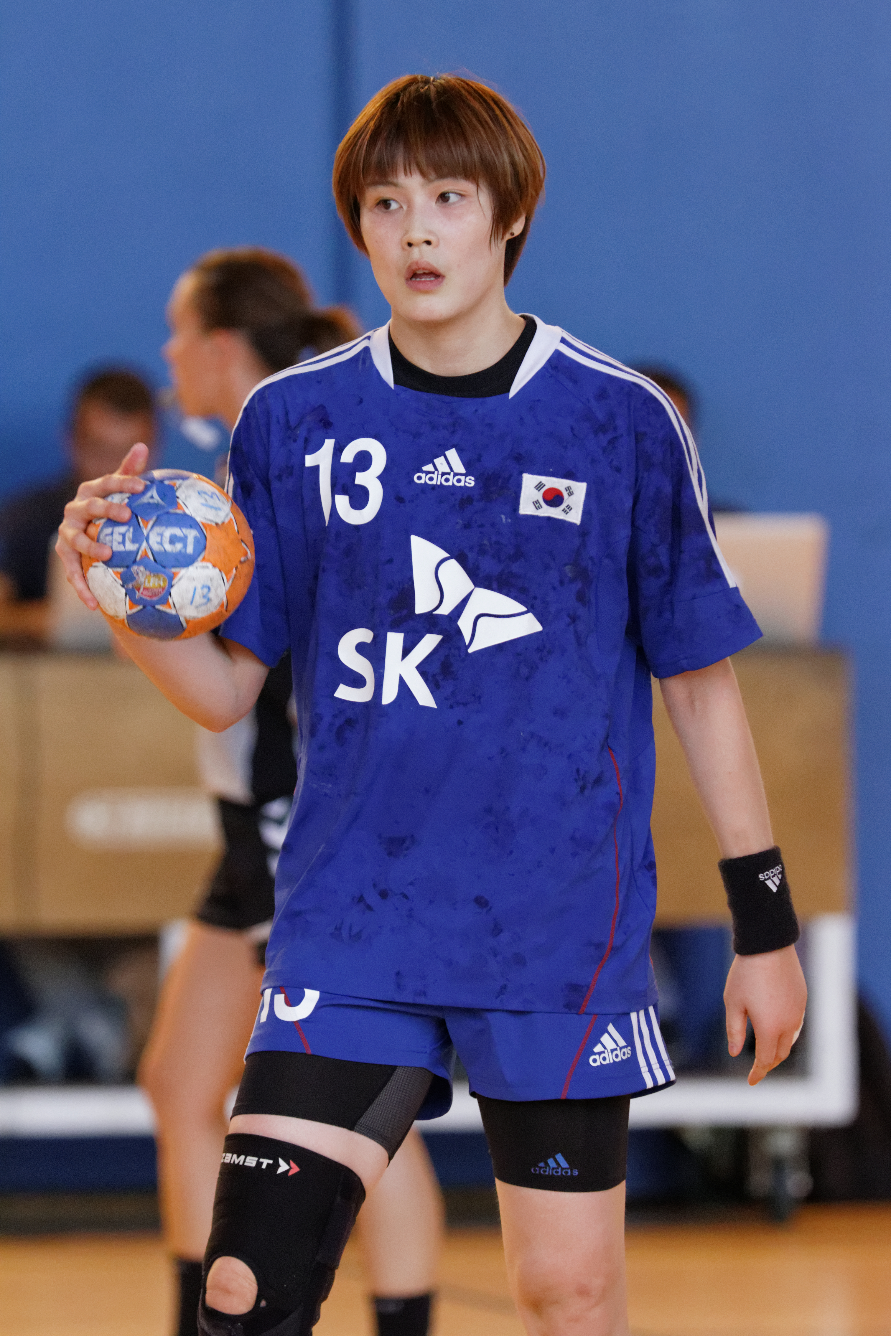 Issy Paris Hand - South Korea, 12 August 2014